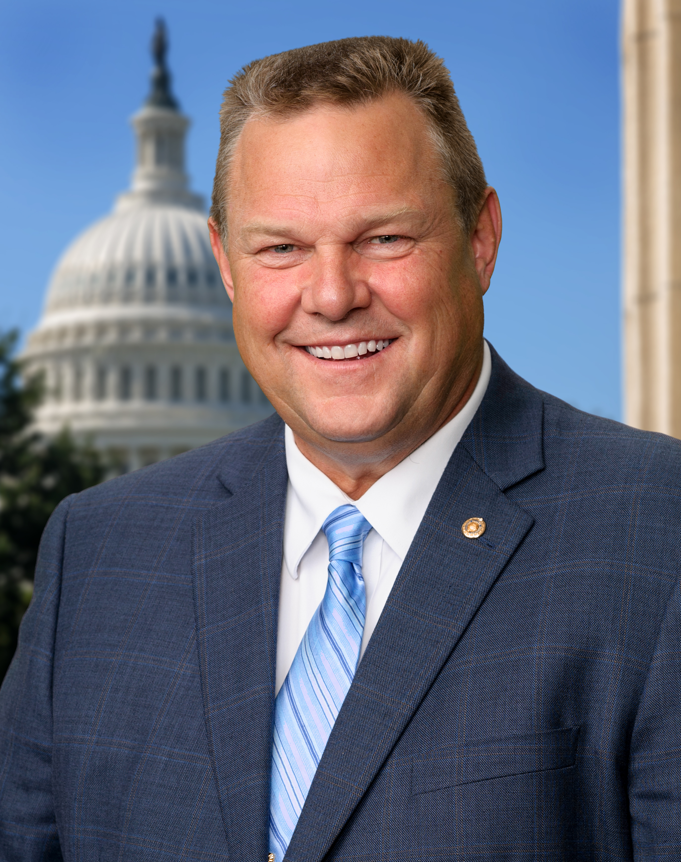 Senator Jon Tester, with Capitol in background. Official portrait.